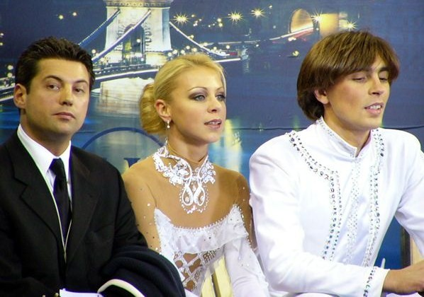 Elena Grushina, Ruslan Goncharov and Nikolai Morozov at the 2004 European Figure Skating Championships